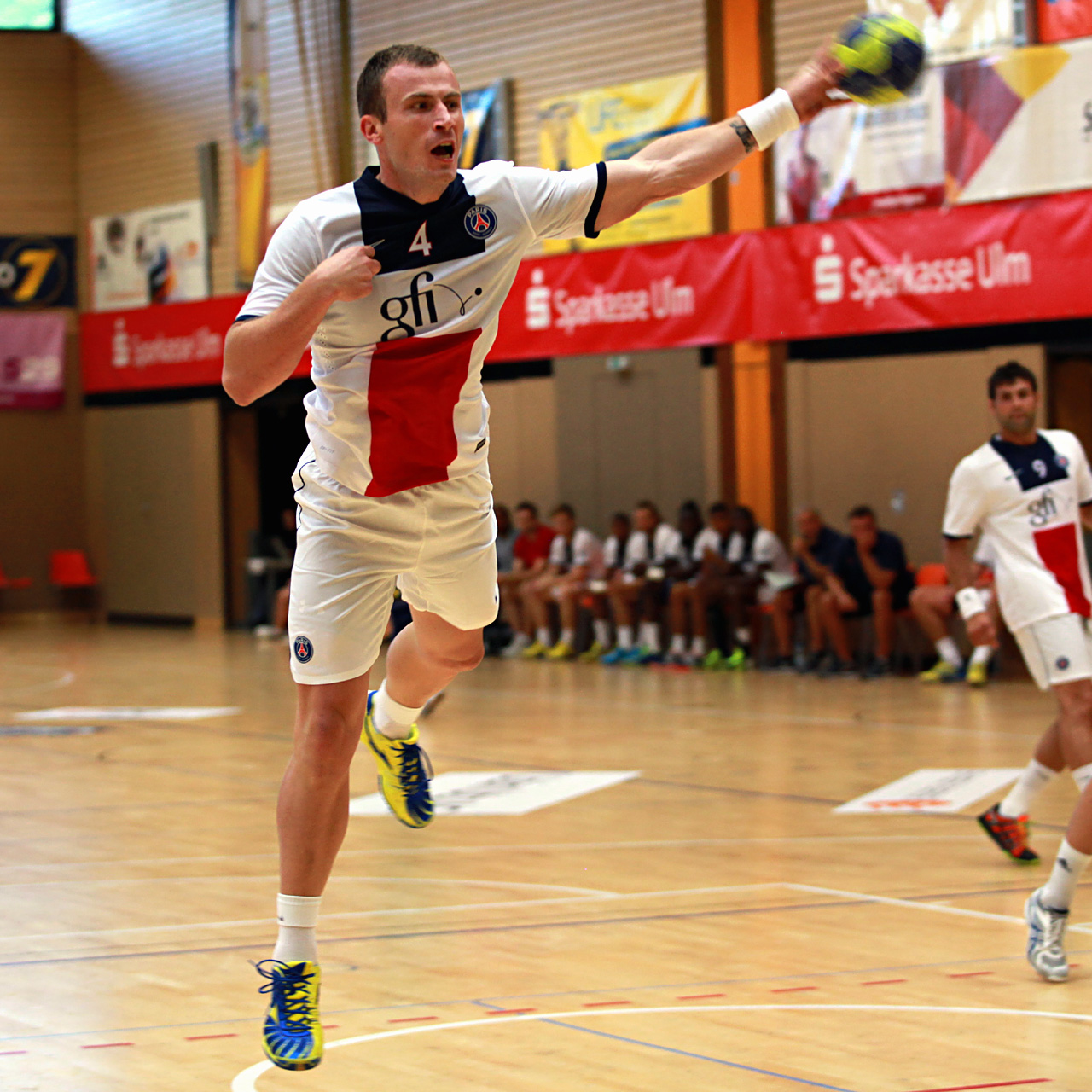 Fahrudin Melić, on August 17th, 2012 in Ehingen (Germany), during the Sparkassen Cup (formerly known as Schlecker Cup).